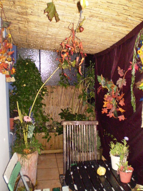 sukkah balcony in Berlin/Germany 2010